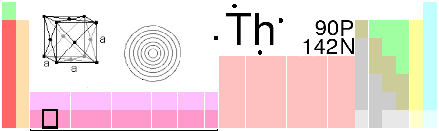 This image was copied from . The original description was: By Greatpatton [1]